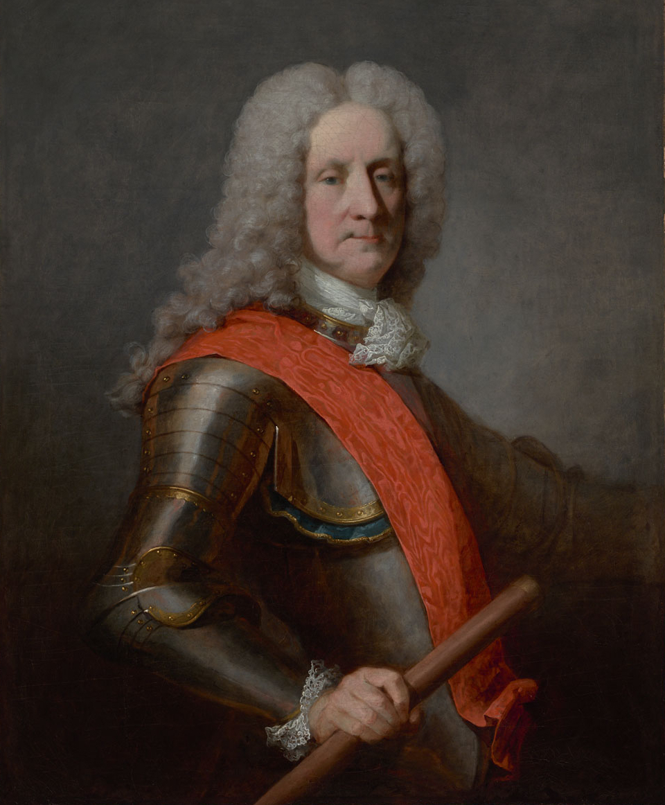 Presumed portrait of Charles de la Boische, Marquis de Beauharnois (1671-1749), Governor of New France.